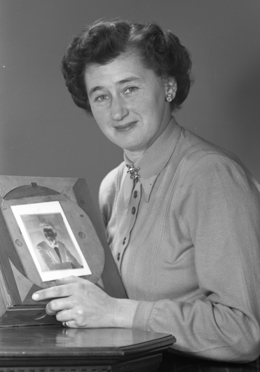 Portrait of Margaret Harker taken in 1952 by Dr S D Jouhar FRPS FPSA.